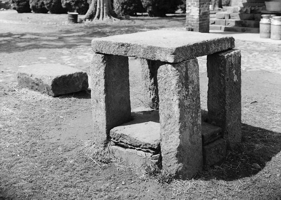 Photograph of the slave auction block at Green Hill Plantation, Pannill family plantation, located on State Route 728, Long Island vicinity, Campbell County, Virginia. Photograph from the Historic American Building Survey, The Library of Congress, Washington, D.C.